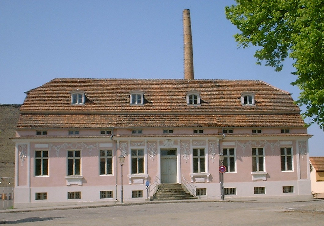 Lendel House in Werder in Brandenburg, Germany